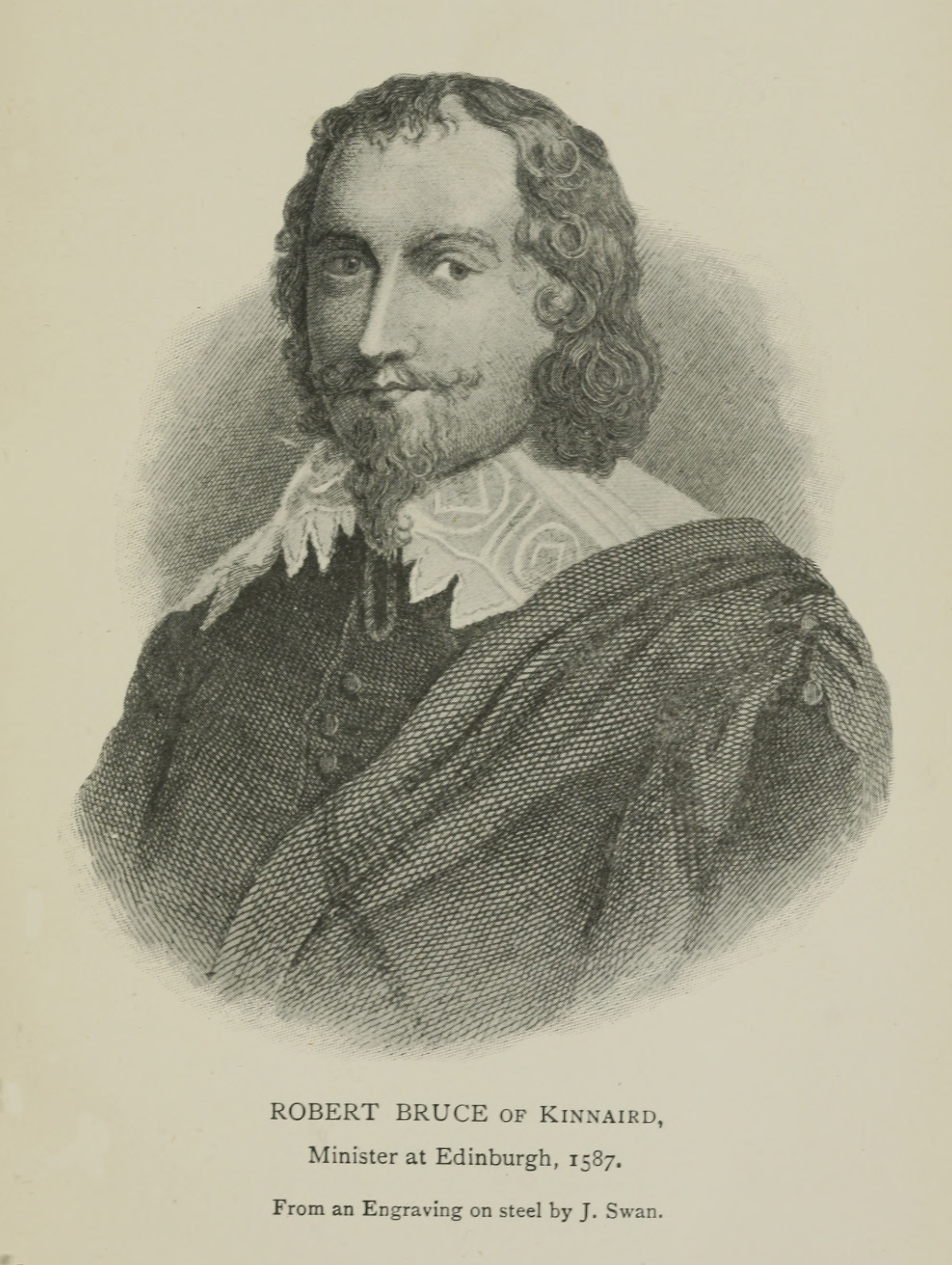 Robert Bruce of Kinnaird, Minister at Edinburgh 1587, From an engraving on steel by J. Swan